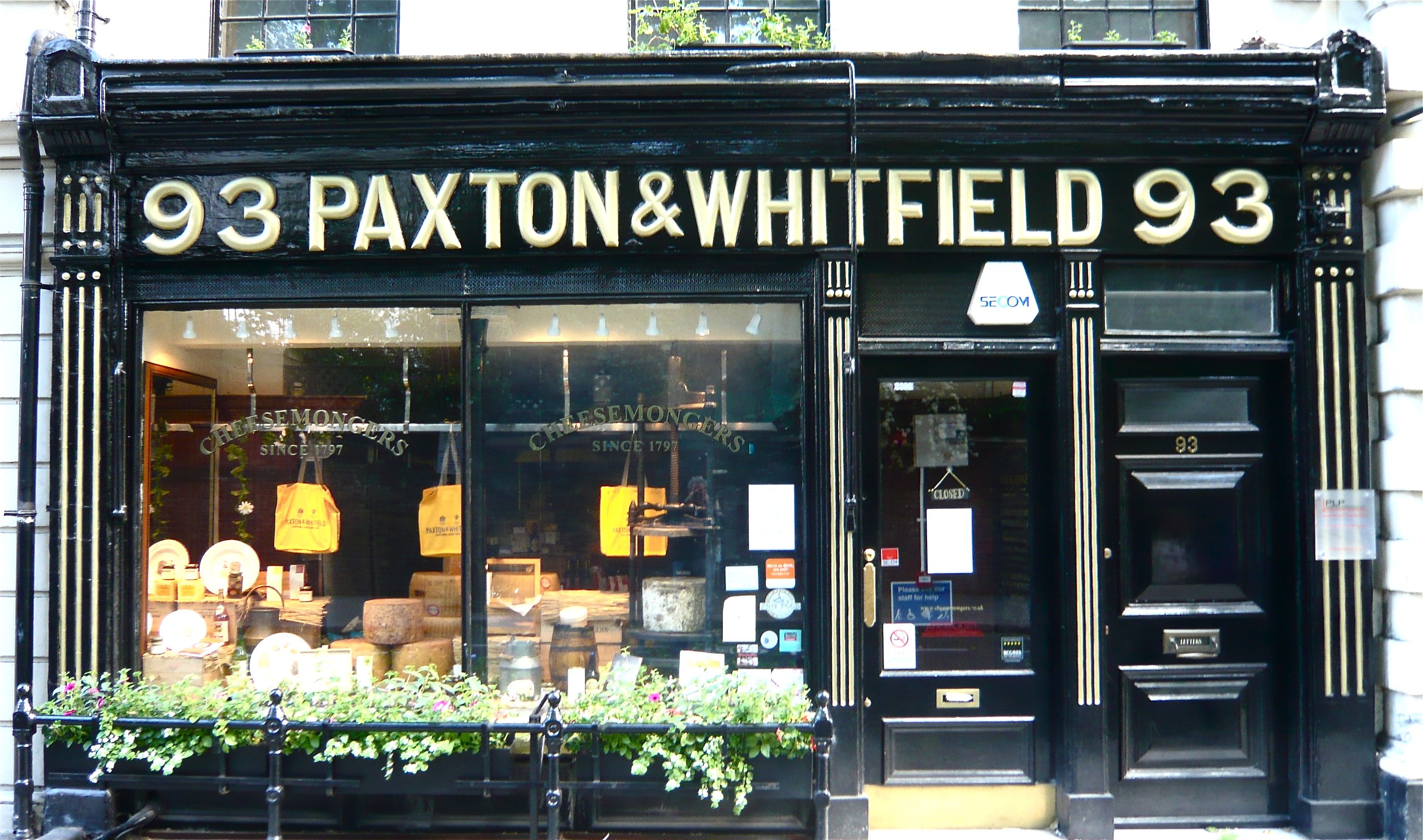 Cheesemonger Paxton and Whitfield of Jermyn Street in London